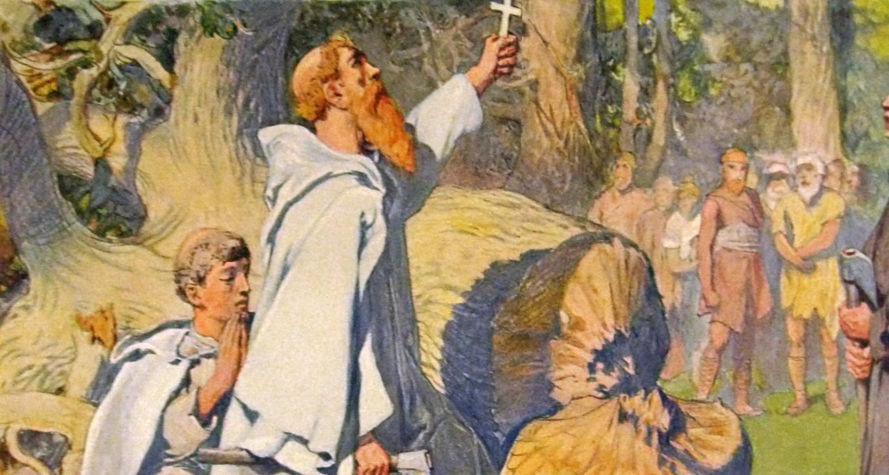 With an axe in one hand, Winfrid (later Saint Boniface) holds a white crucifix over the fallen Thor's Oak while one of his attendants pray and the other solemnly holds an axe. The Chatti, a Germanic tribe, look on.